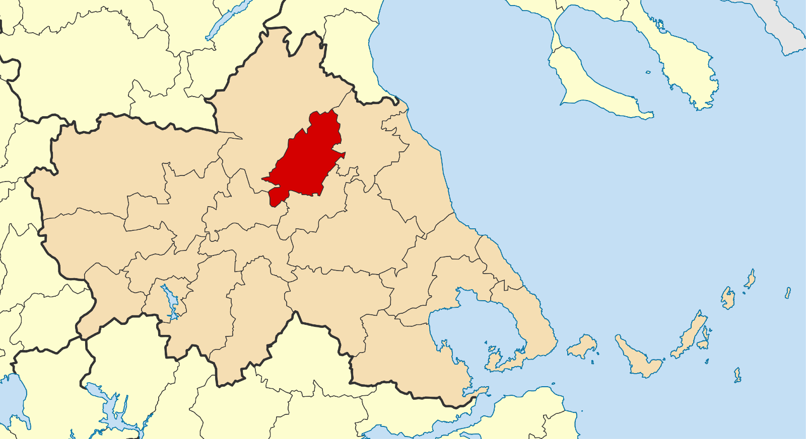 Locator map for Tyrnavos municipality in Greek region Thessaly (2011)